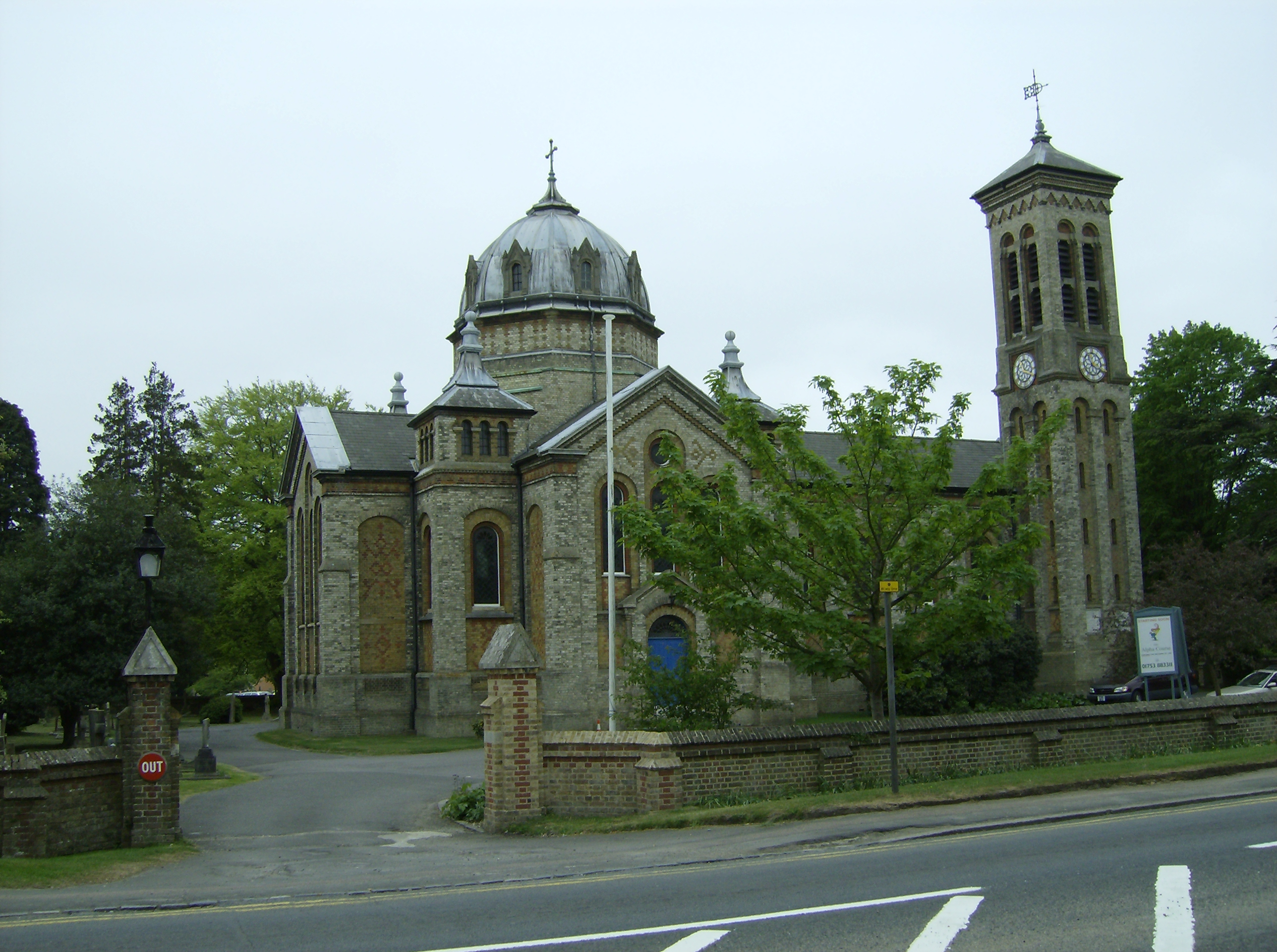 St James's Church, Gerrards Cross, built in 1861